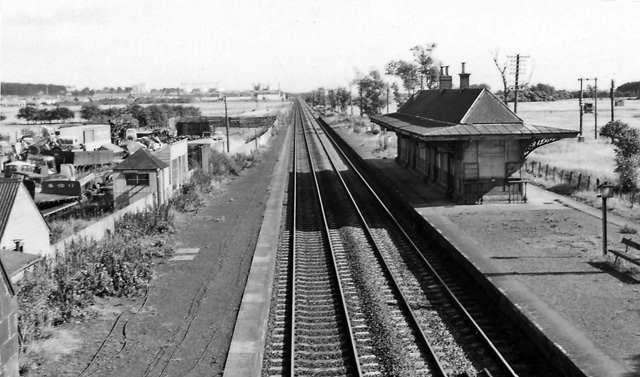 Barry Links Station. View eastward, towards Arbroath, on former Dundee & Arbroath Joint (NB & Caledonian) section of the main line Dundee - Aberdeen. Although it rather looks like it, but the station was not closed when photographed -- and it is still open.